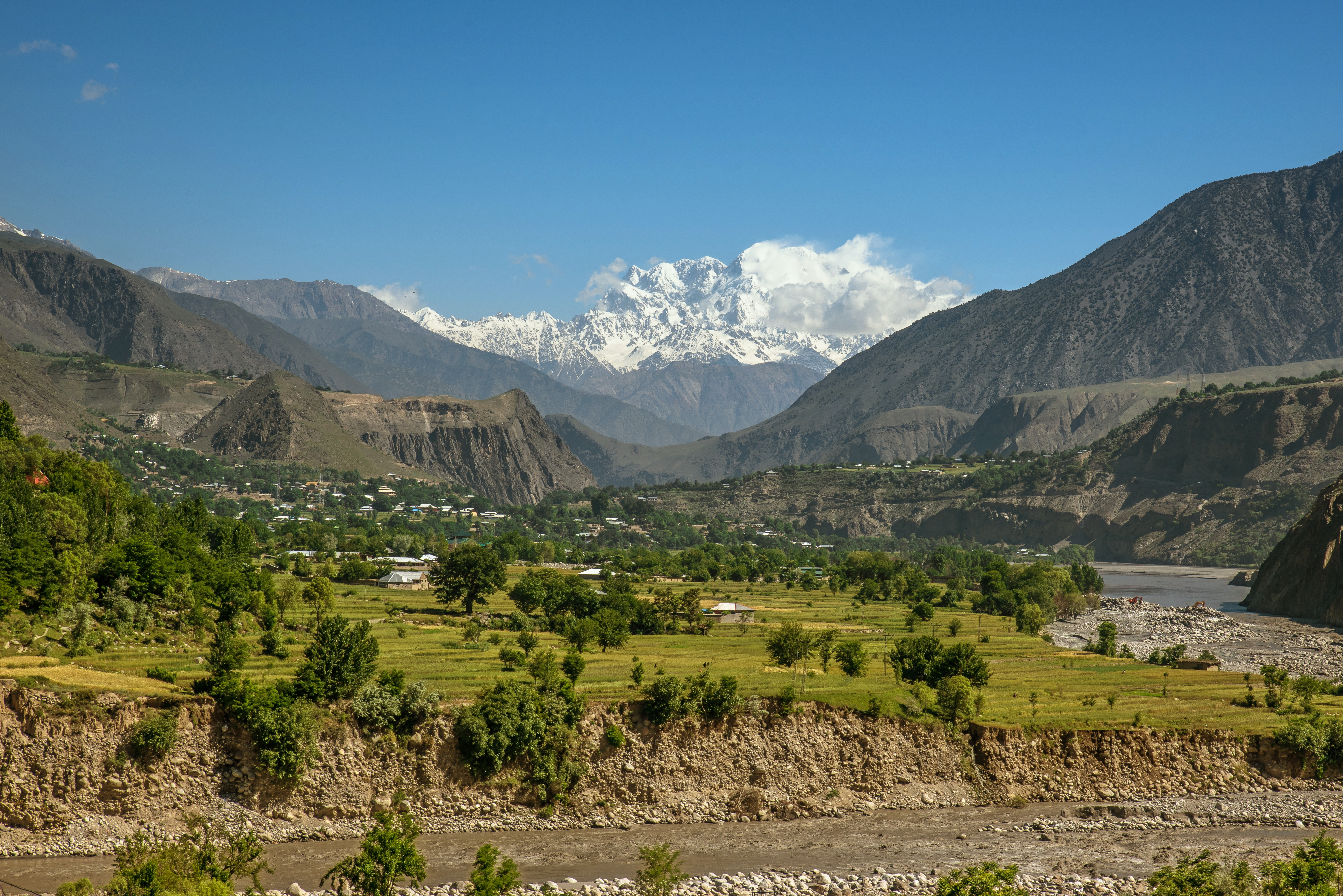 Beautiful view of Tirich Mir (7708m). Tirich Mir is the highest mountain of the Hindu Kush range.